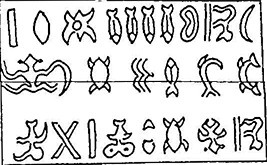 Tracing of rongorongo text Y, front and rear panels fit together